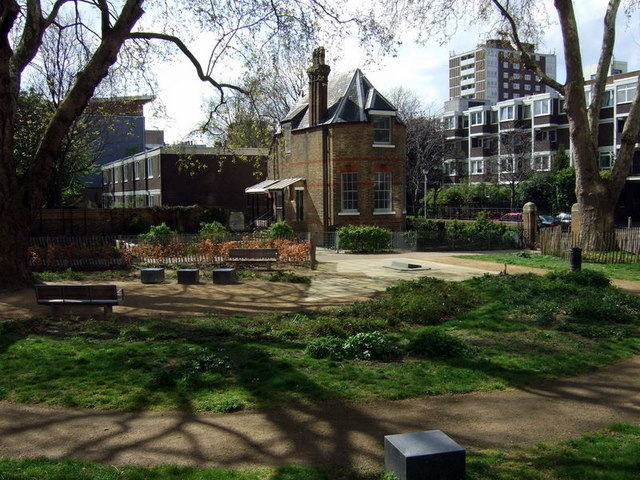 Quaker Gardens off Bunhill Row Bunhill Fields Meeting House and the remnant of a much larger burial ground which was the first freehold property to be owned by Quakers when it was bought in 1661. 12,000 people were buried there before it closed in 1855. The garden is quiet enclave among blocks of flats and a children's playground adjoins.